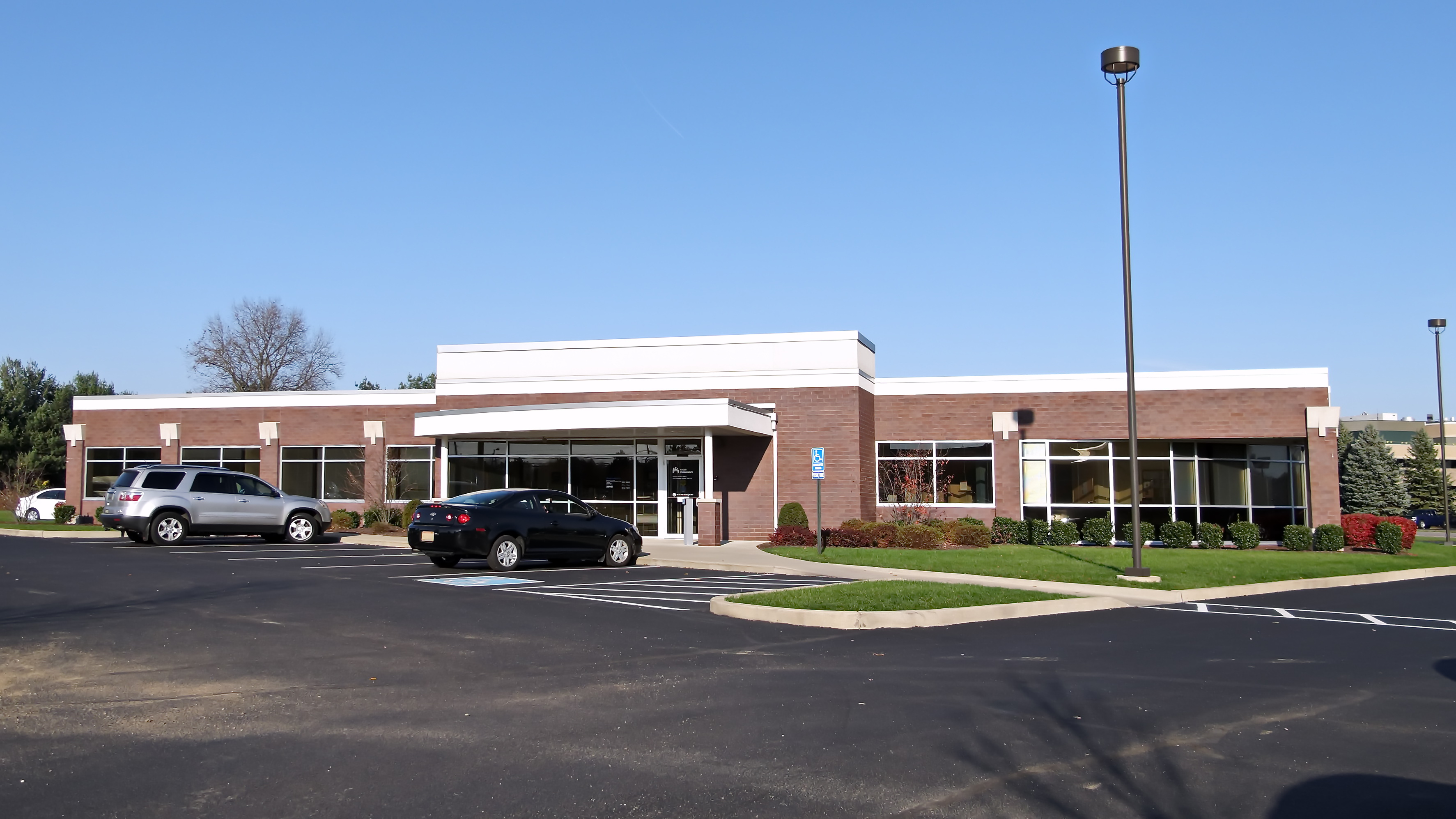 Kaiser Permanente - Fairlawn, Ohio Medical Offices